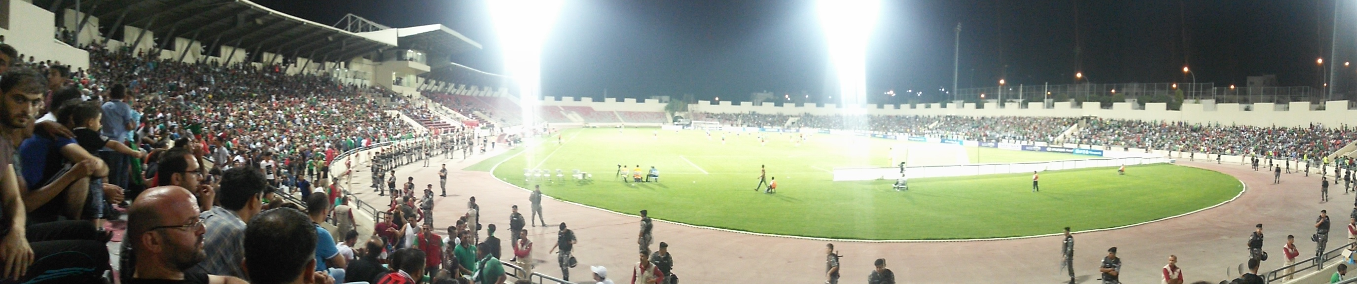 Image by FIFA from the 2016 FIFA U-17 Women's World Cup